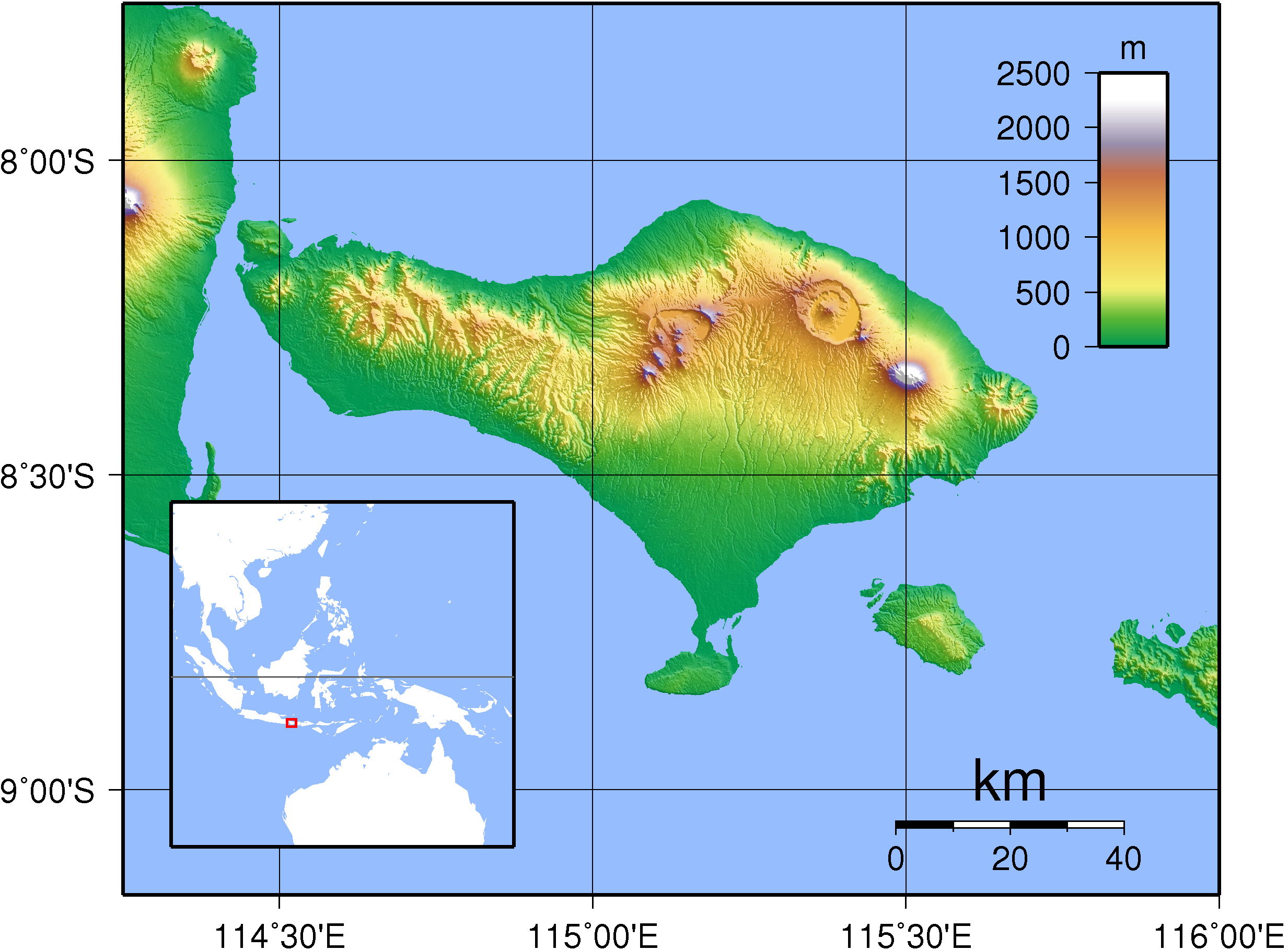 Topographic map of Bali. Created with GMT from puclicly released SRTM data.